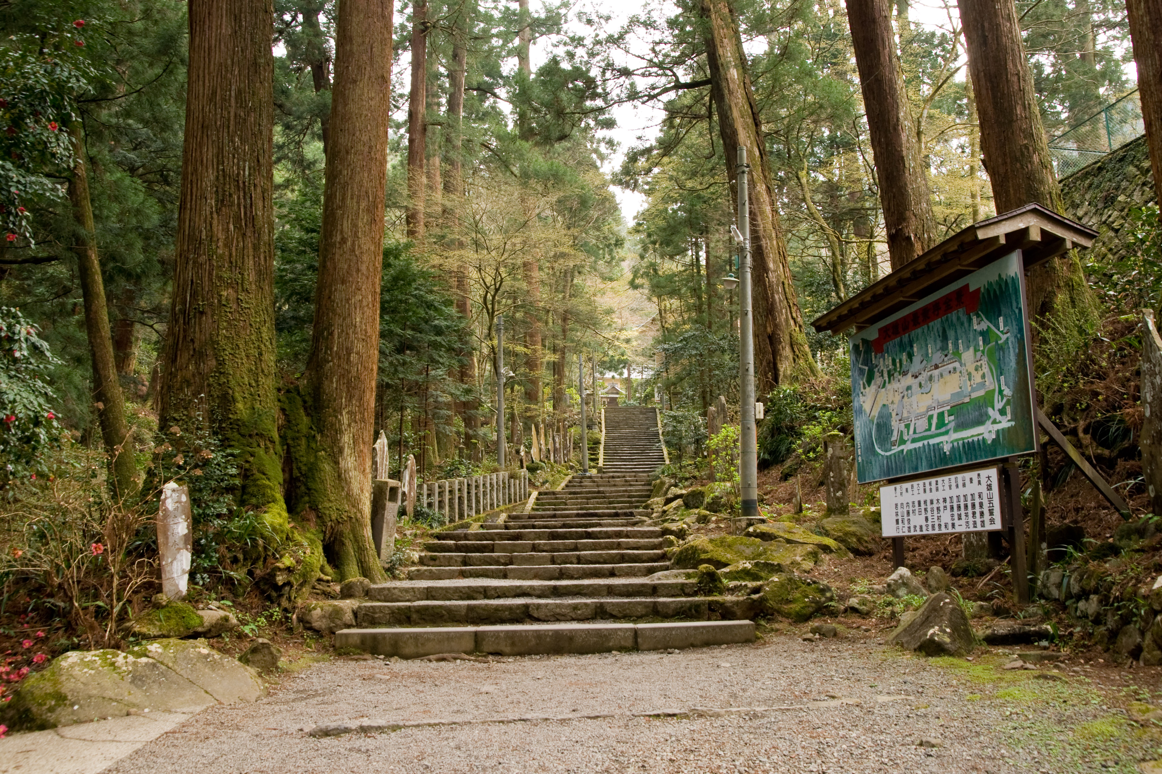 Daiyuzan Saijoji Temple, Minami-ashigara City, Kanagawa, Japan.